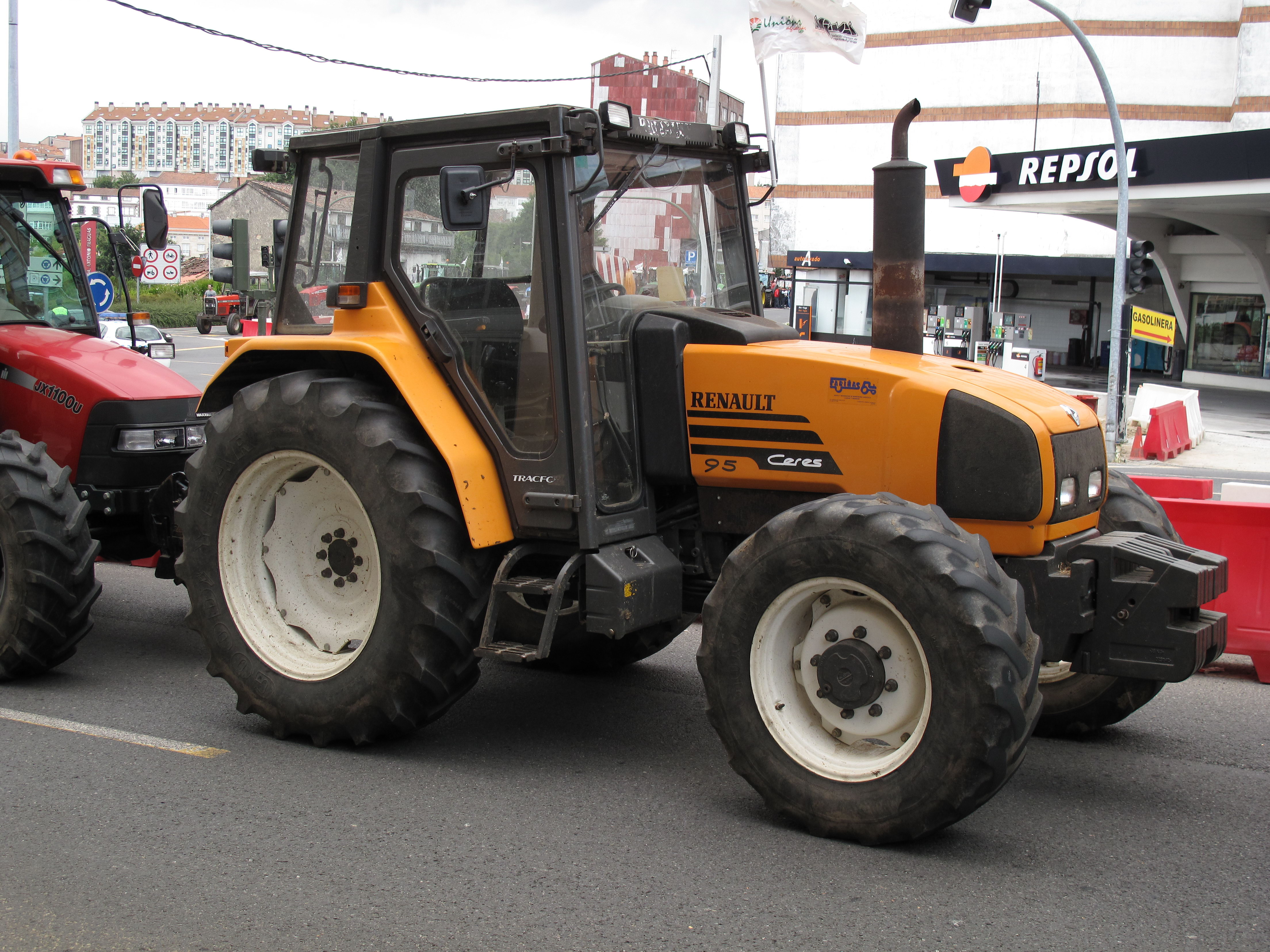 Renault Ceres 95 tractor on a demonstration of dairy farmers in Santiago de Compostela, Galicia, Spain